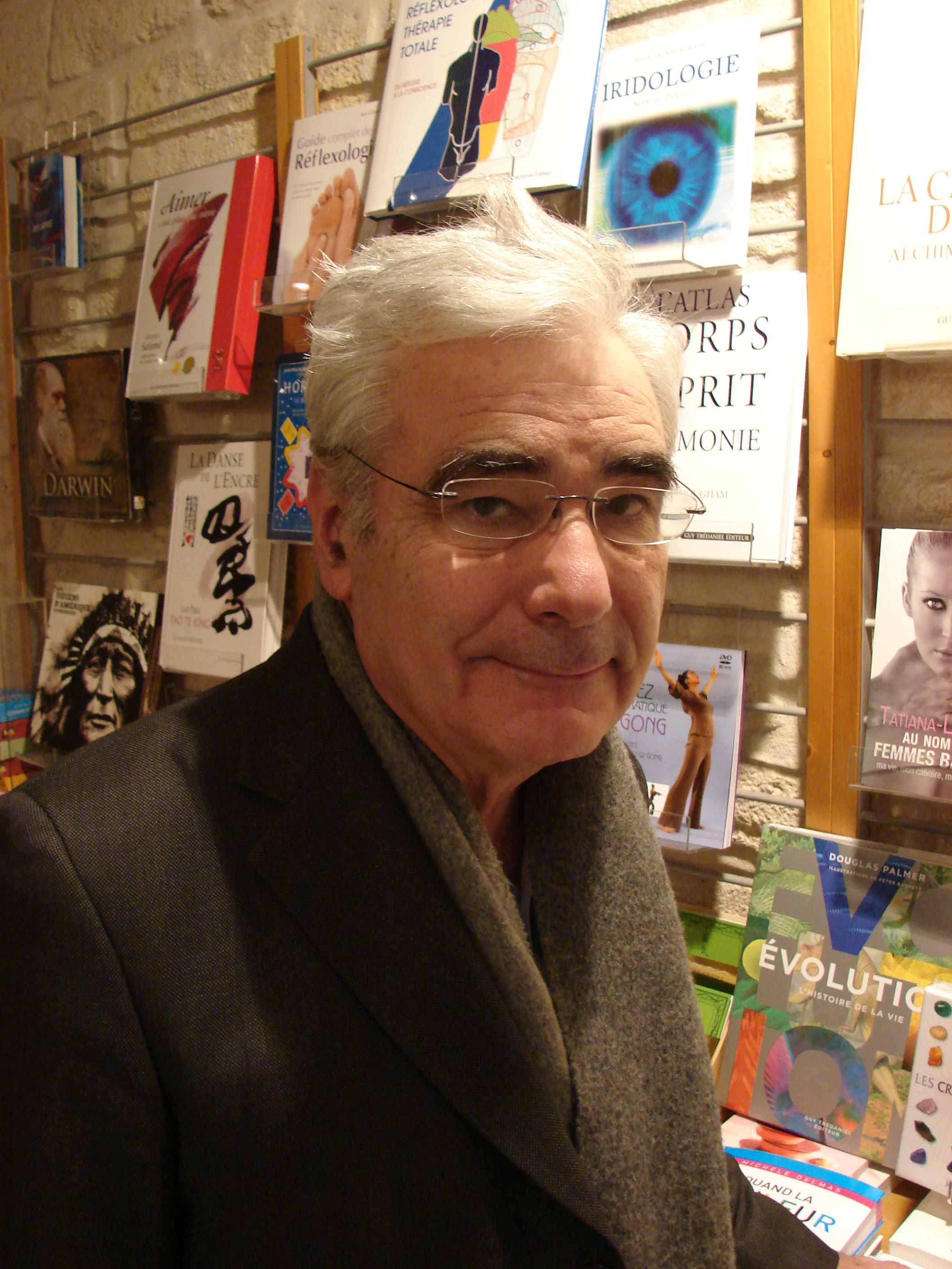 Guy Trédaniel